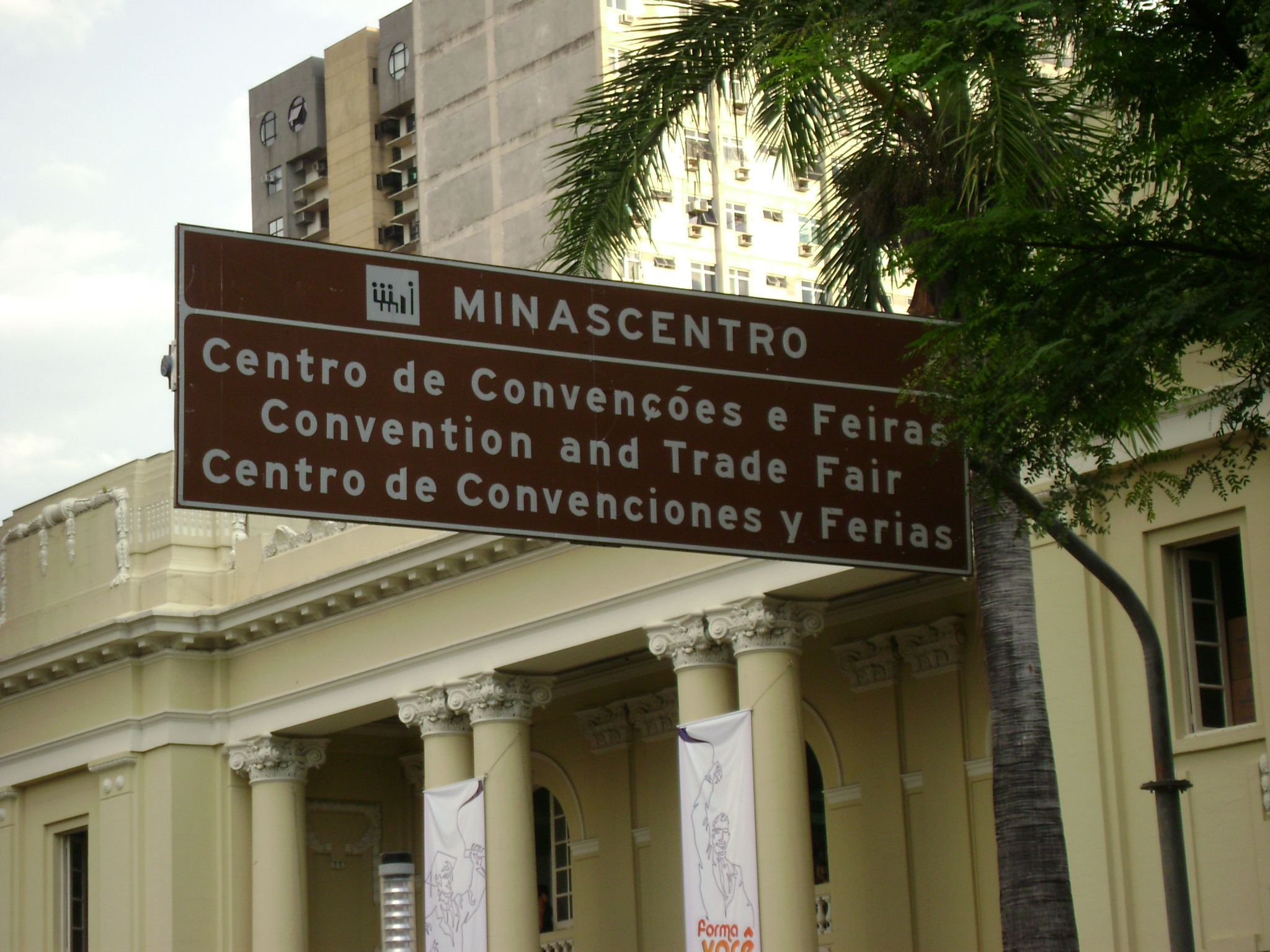 Placa informativa do Minascentro, em Belo Horizonte.